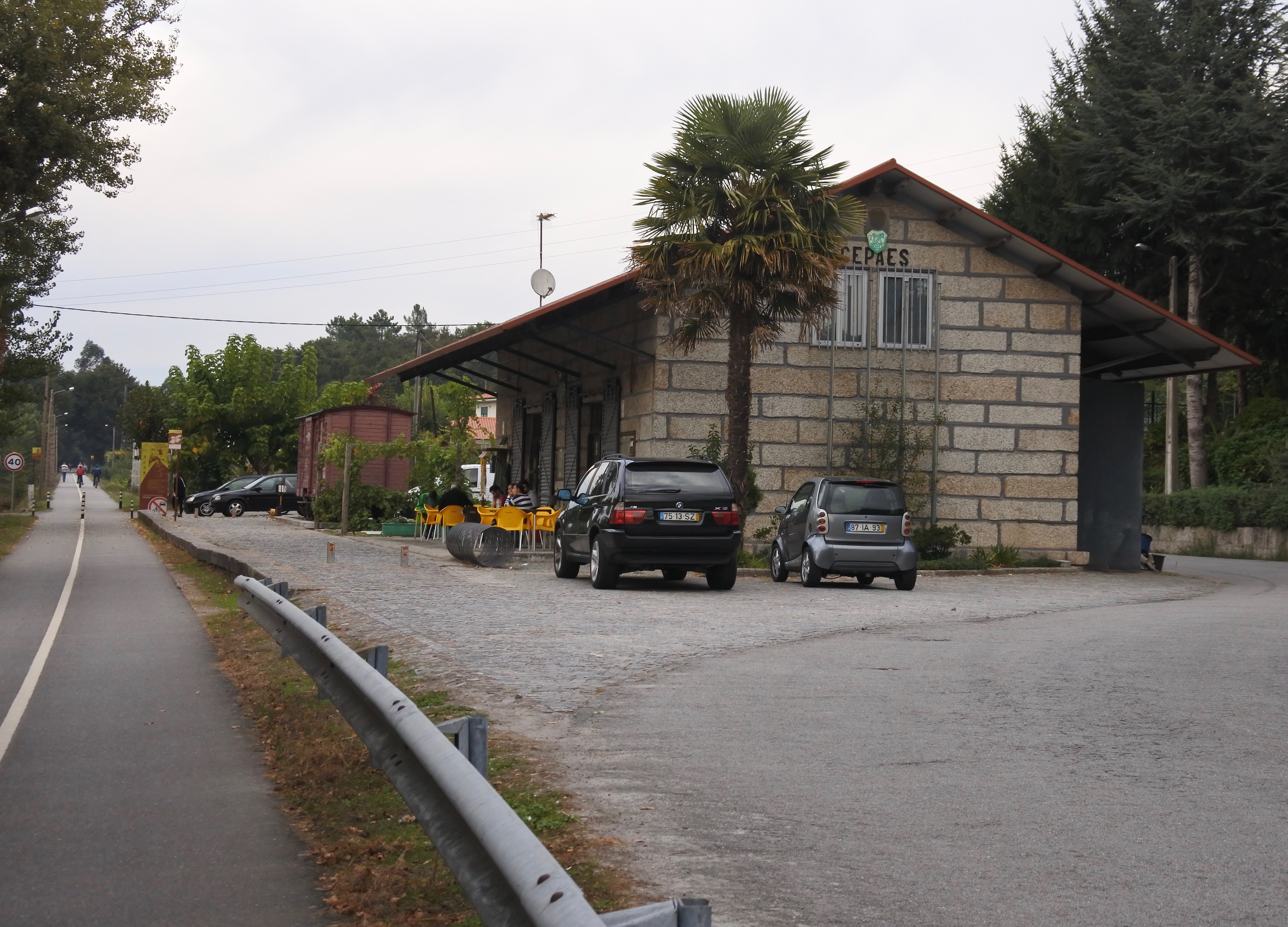 Old train station of Cepães, Guimarães/Fafe cyclepath, now home to a coffee shop.